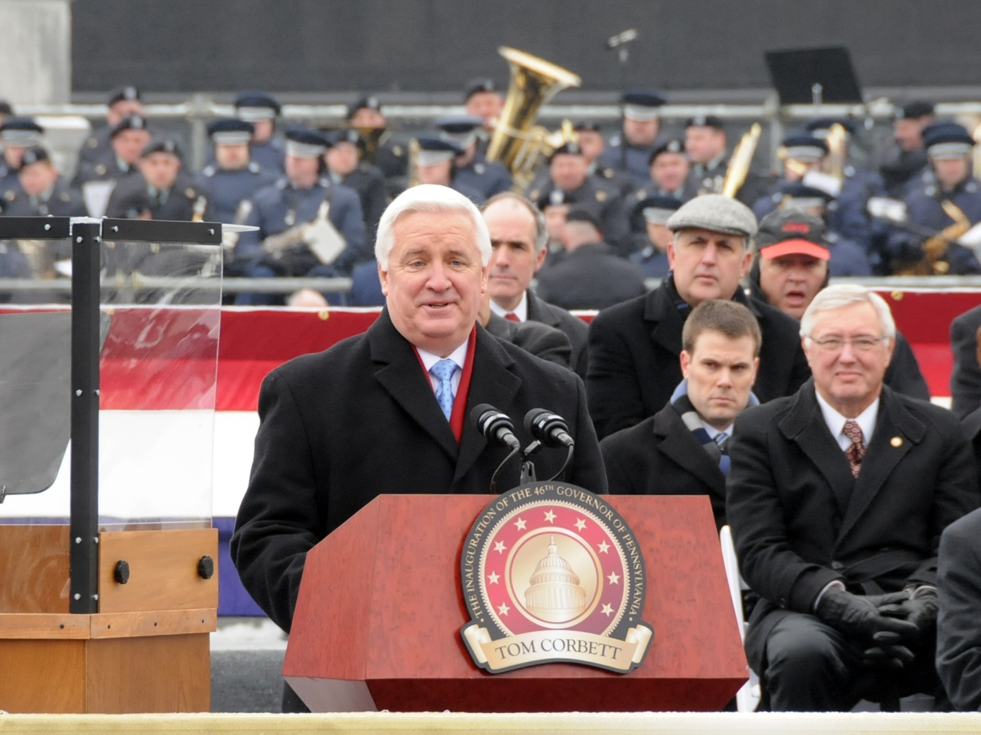 Pennsylvania Governor Tom Corbett addresses the crowd at his inauguration ceremony while a combined band made up of members from the 28th Division Band and the Air National Guard Band of the Mid-Atlantic sits at the ready in the background. The inauguration ceremony took place on the steps of the Capitol Complex in Harrisburg PA on January 18, 2011. The band was under the direction of Chief Warrant Officer 2 Jeffrey A. Jaworowski and First Lieutenant Joseph R. Denti.